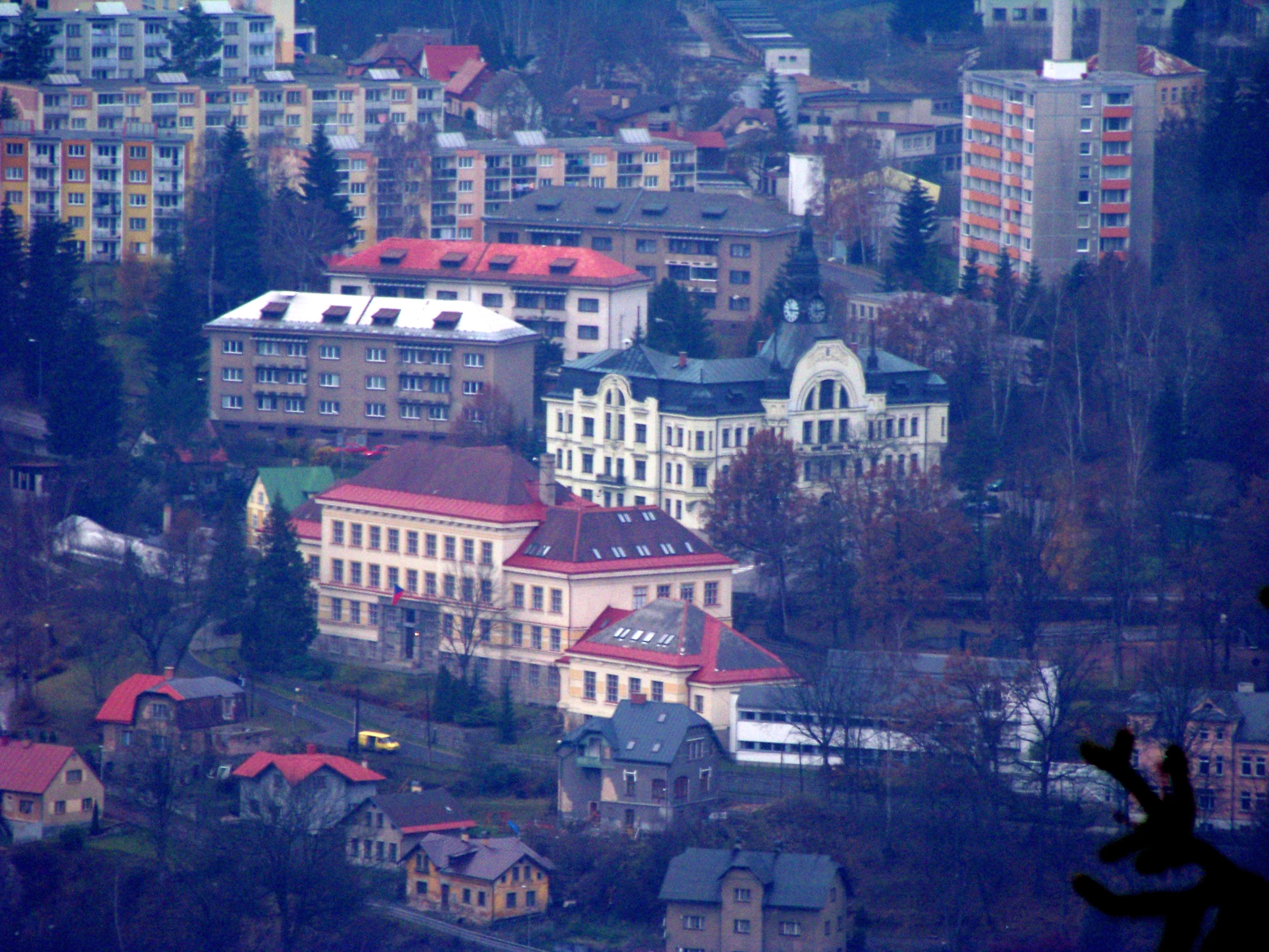 Tanvald, Jablonec nad Nisou District, Liberec Region, the Czech Republic. A view of town from Šulík's Rock.